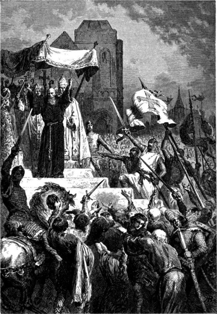 God Willeth It! Pope Urban II preaches preaches the First Crusade at the Council of Clermont (1095)